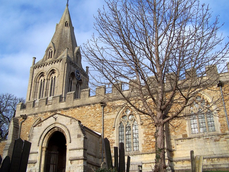 South porch and steeple of St Michael and All Angels parish church, Hallaton, Leicestershire, seen from south-southeast